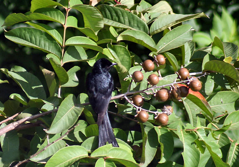 (Giant Crape-myrtle, Queen's Crape-myrtle or Banabá Plant) Lagerstroemia speciosa. Kolkata, West Bengal, India.